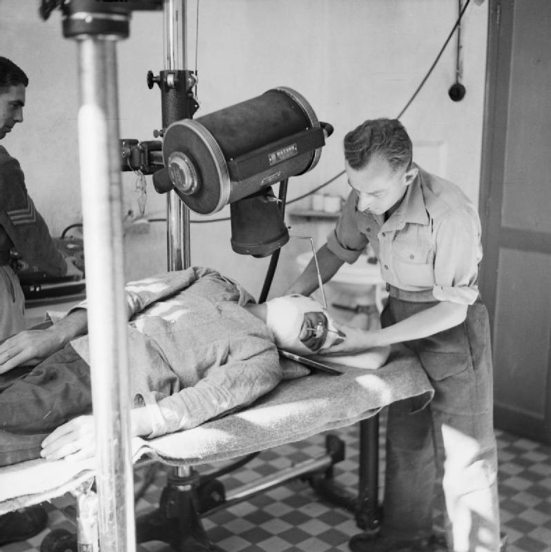 The British Army in North Africa 1943 A soldier undergoing an X-ray prior to plastic surgery at No.4 Maxillo-Facial Surgical Unit, at 34th General Hospital in Algiers, 4 November 1943.